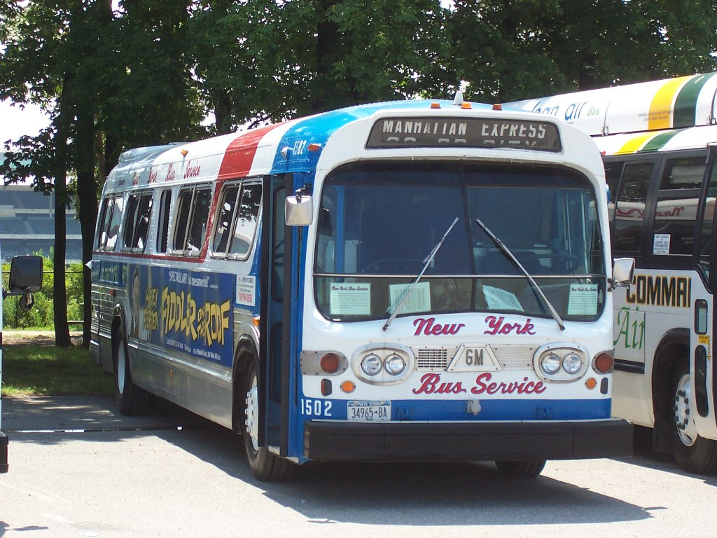 Former New York Bus Service GMDD S8H-5304M #1502 on display at the 2006 MTA Bus Company Roadeo.